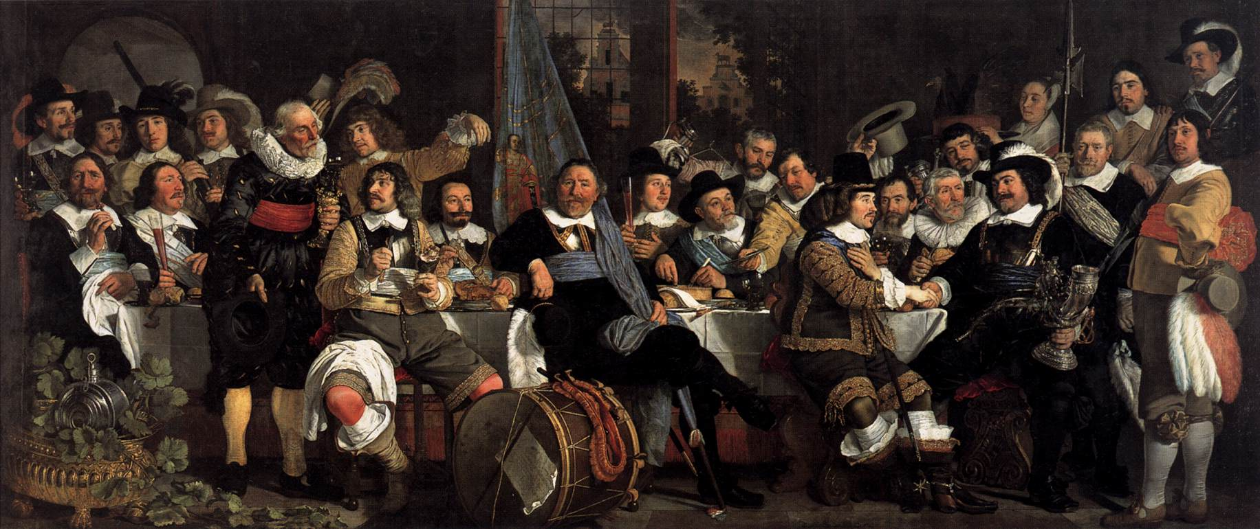 Celebration of the peace of Münster, 18 June 1648, in the headquarters of the crossbowmen's civic guard (St George guard), Amsterdam. The people portrayed are: (right, with silver horn) captain Cornelis Jansz. Witsen, (shakes hand of previous) lieutenant Johan Oetgens van Waveren, (seated behind the drum, with flag) reserve officer candidate Jacob Banning, sergeants Dirck Claesz. Thoveling and Thomas Hartog. Additionally: Pieter van Hoorn, Willem Pietersz. van der Voort, Adriaen Dirck Sparwer, Hendrick Calaber, Govert van der Mij, Johannes Calaber, Benedictus Schaesk, Jam Maes, Jacob van Diemen, Jan van Ommeren, Isaac Ooyens, Gerrit Pietersz. van Anstenraadt, Herman Teunisz. de Kluyter, Andries van ANstenraadt, Christoffel Poock, Hendrick Dommer Wz., Paulus Hennekijn, Lambregt van den Bos and Willem the drummer.